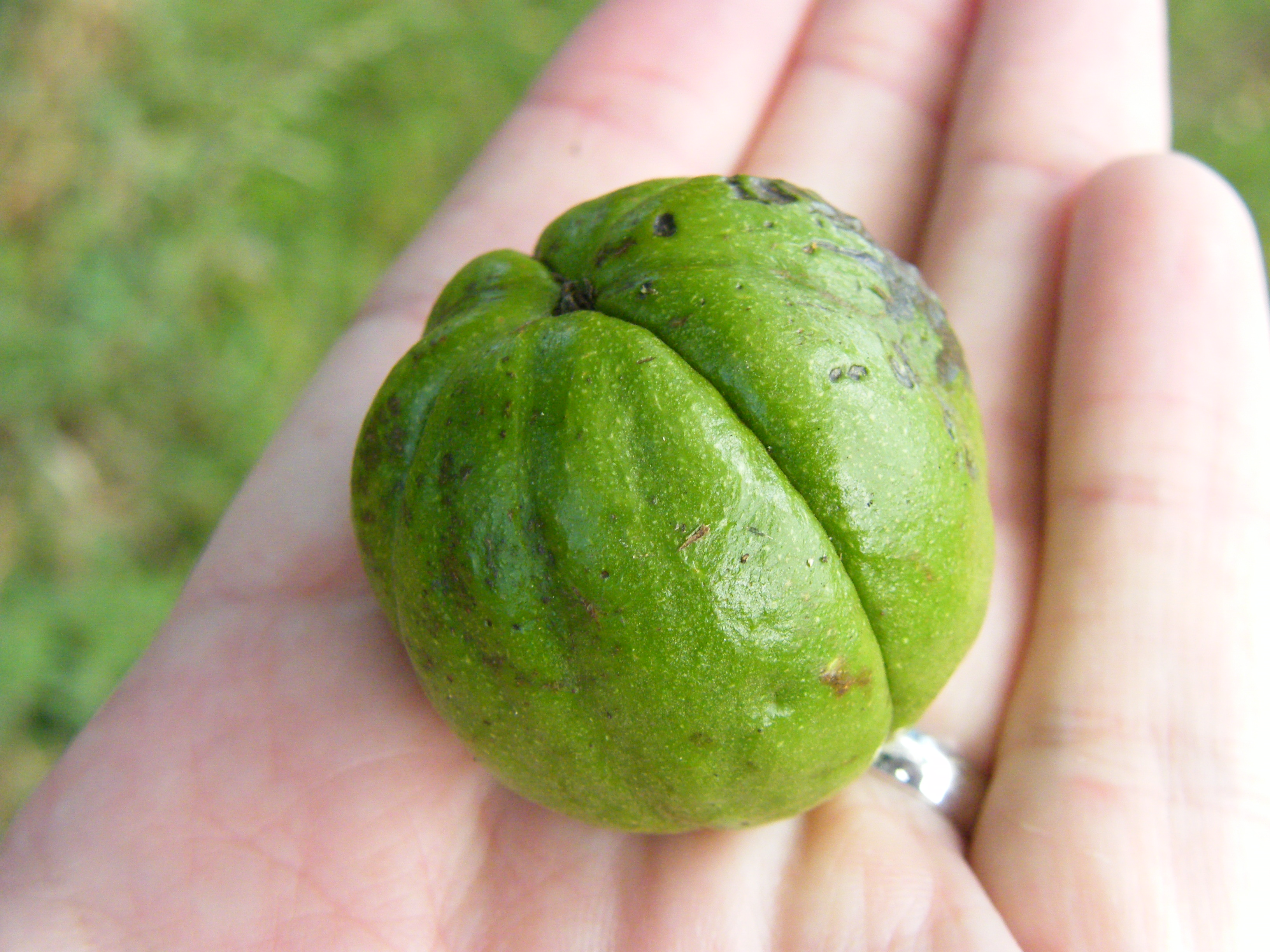 Hickory nut fruit, Pennsylvania